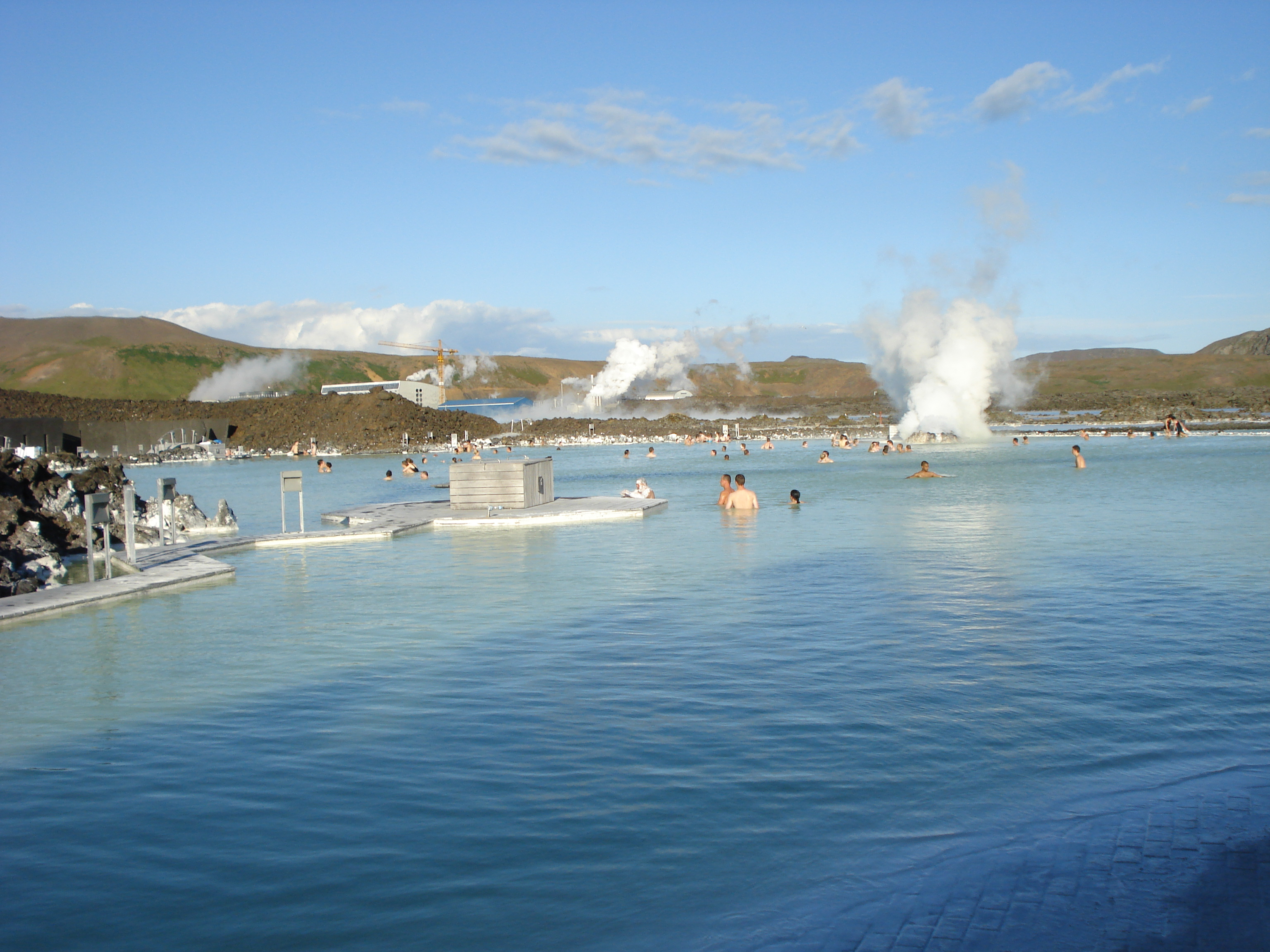 Bath "Blue Lagoon" Reykjanes, Iceland